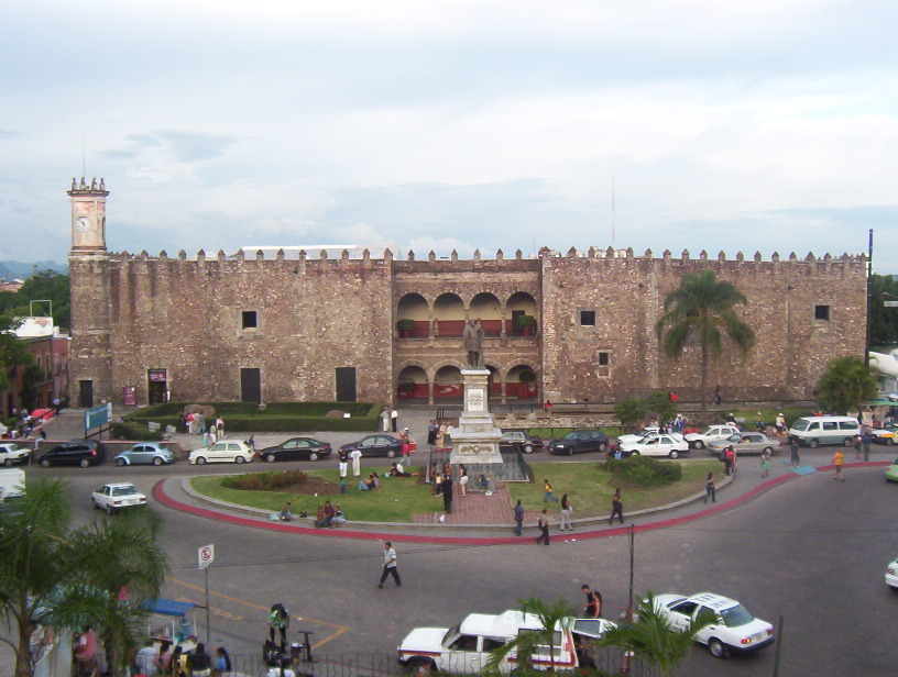 Cortés Palace in Cuernavaca, Mexico.